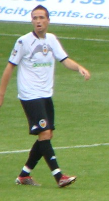 01/08/09 Cardiff City V Valencia CF, Pre-Season Friendly, Cardiff City Stadium